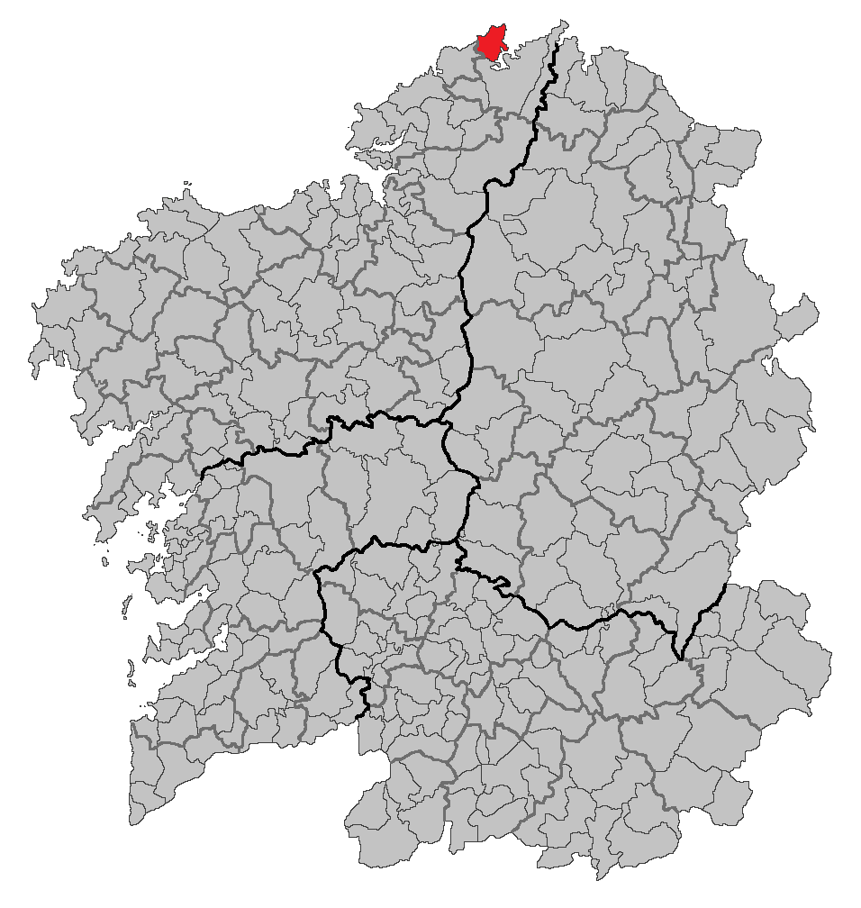 Location map of Cariño, A Coruña, Galicia